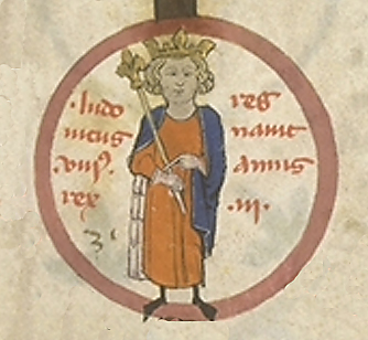 Louis VIII of France